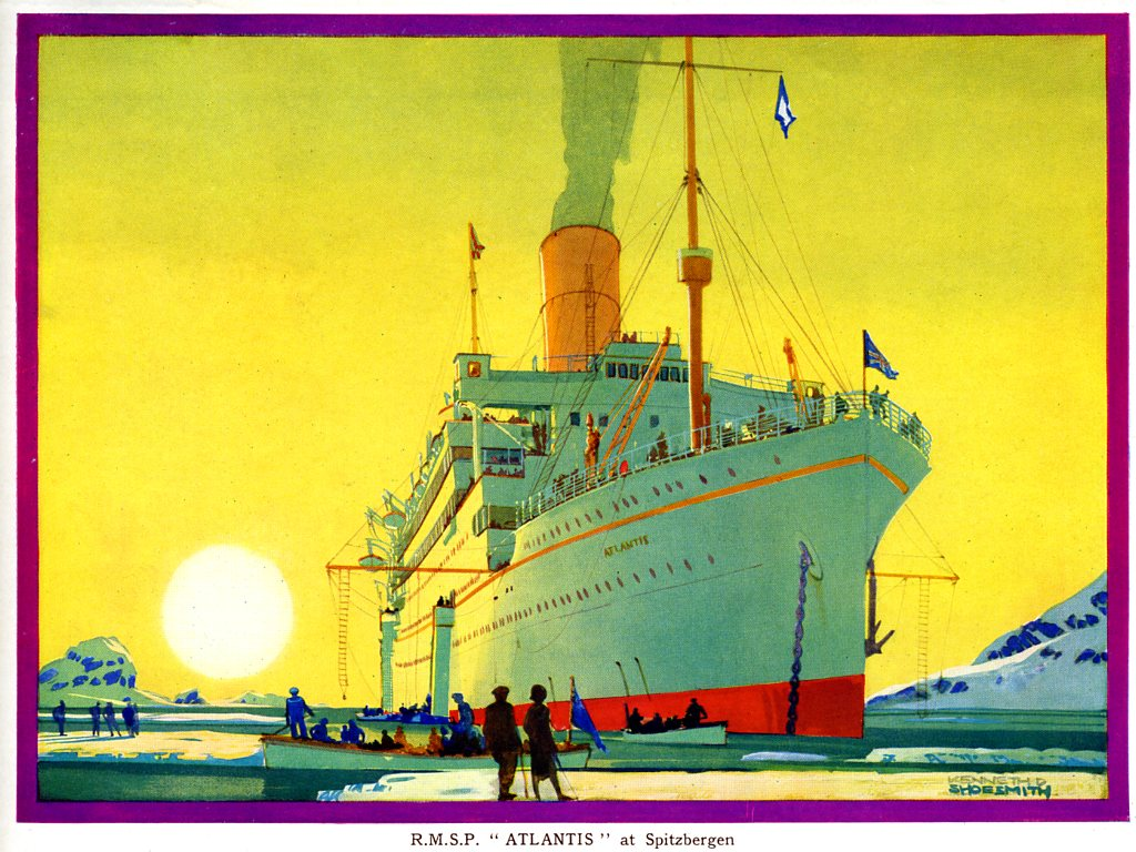 Lithograph of the Royal Mail Lines liner Atlantis in midnight sunshine at Spitzbergen